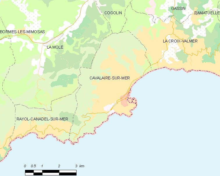 Map of French municipality Cavalaire-sur-Mer